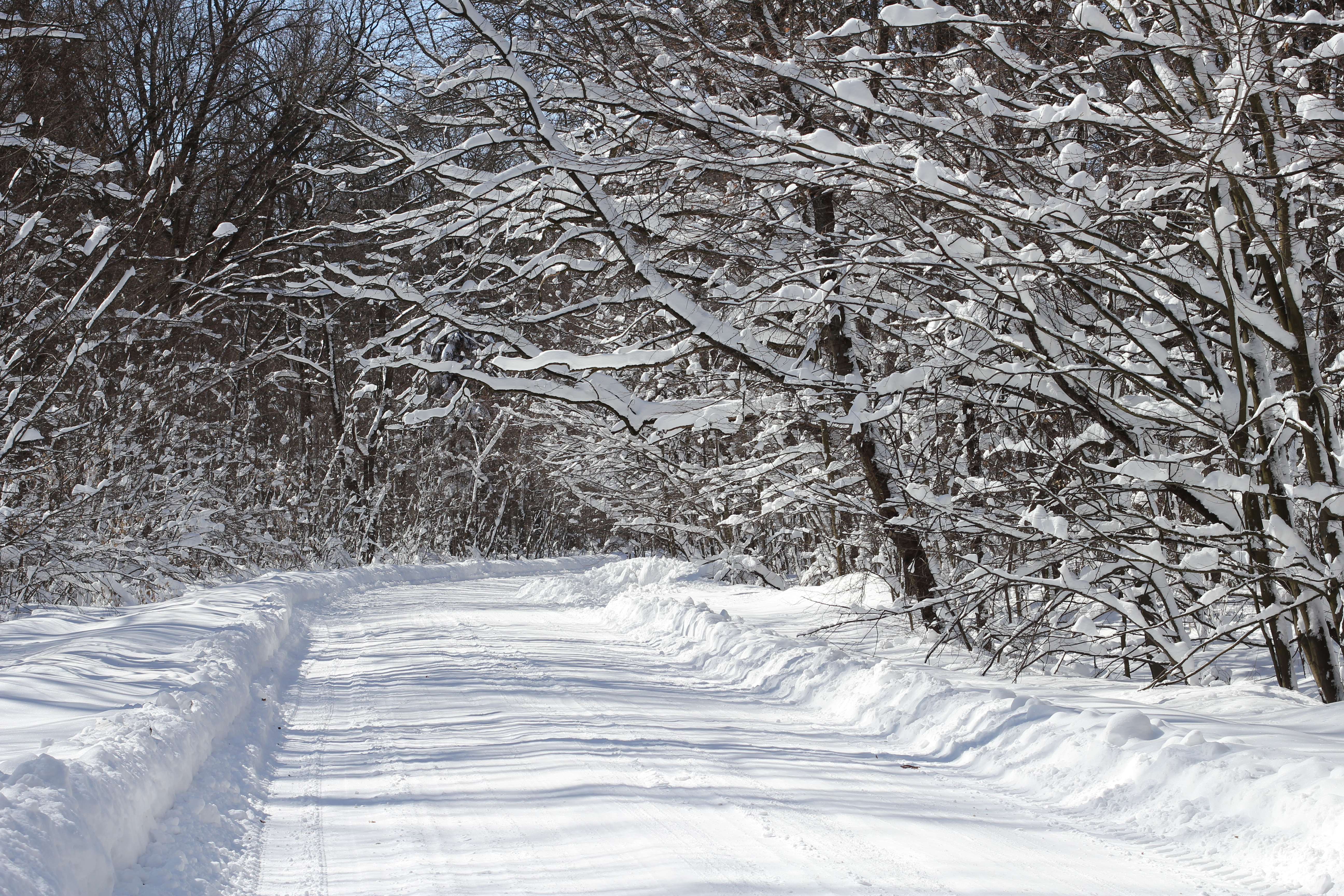 The snow-covered road from Sosonka village to the highway M21 Vinnytsia–Kyiv.